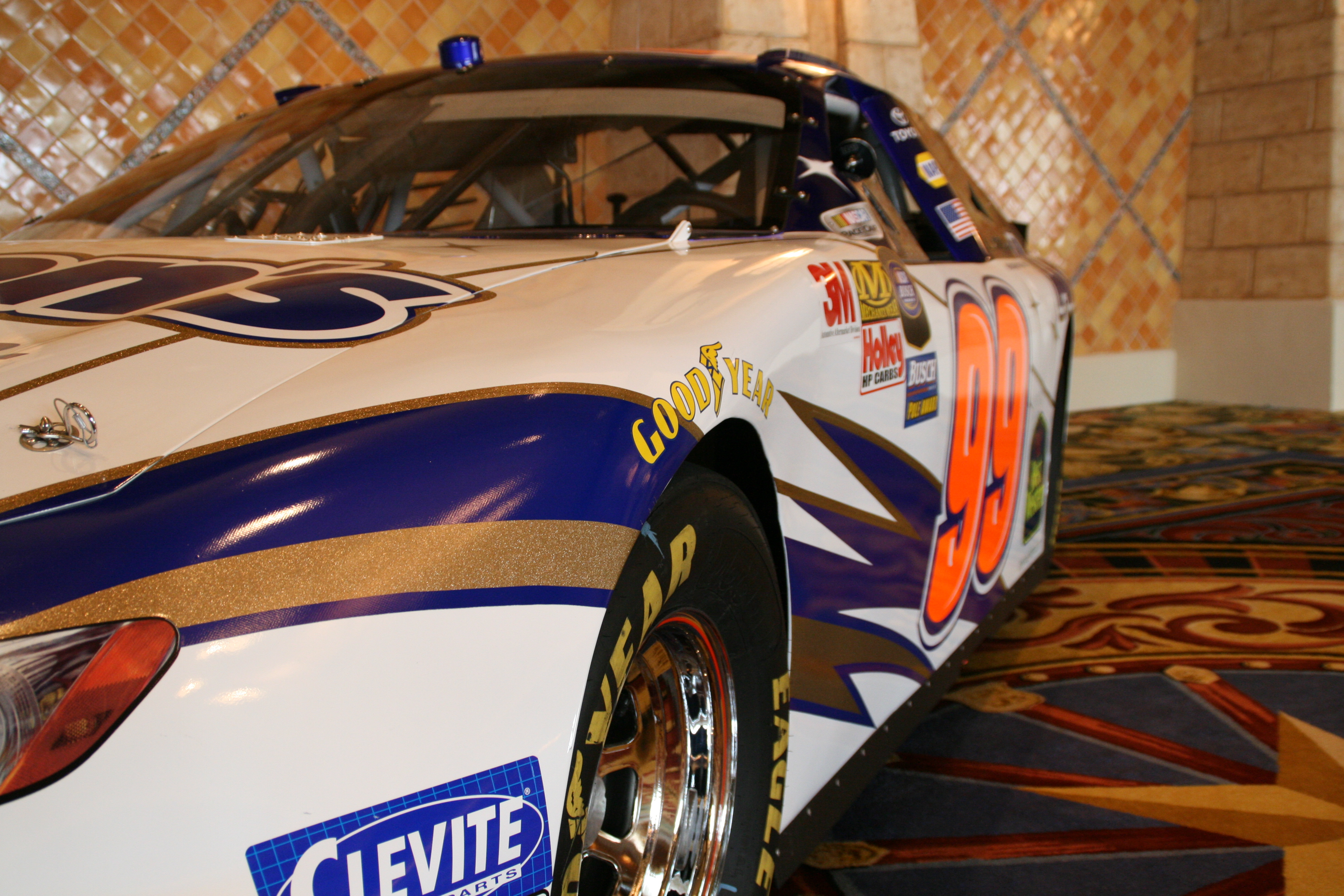 NASCAR driver Aaron Reutimann #99 Busch Series race carAaron's Dream Machine